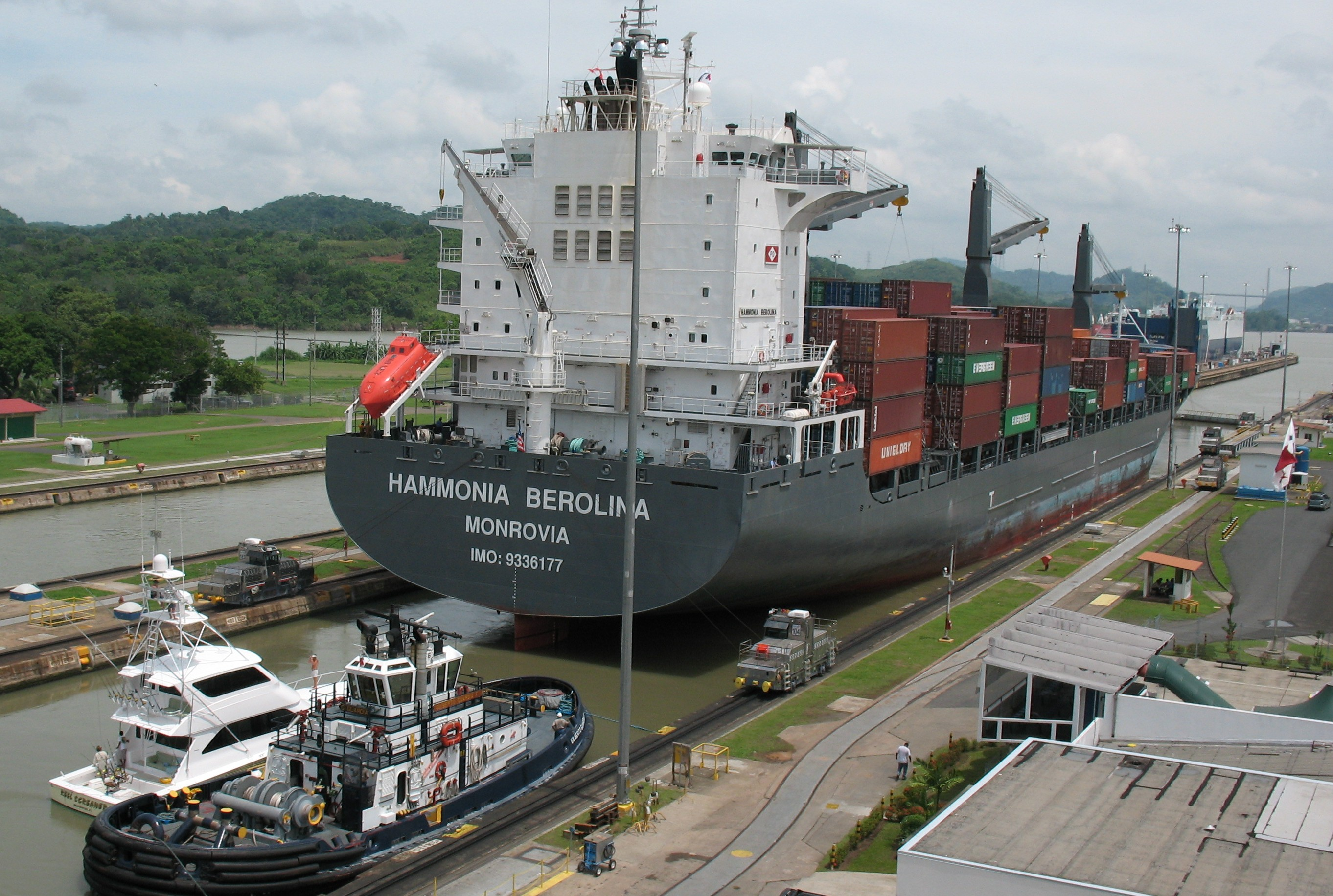 The container ship "Hammonia Berolina" enters the Miraflores Locks in the Panama Canal.